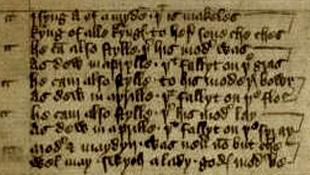 A cropped image of "I syng of a mayden", a 15th Century Middle English poem which forms part of the famous Sloane Manuscript (BL MS. 2593), held in the British Library. Digitised by the British Library, the 2D manuscript itself is in the public domain by virtue of its age, and this image has been cropped to remove any 3D elements of the original higher resolution photograph. As this manuscript is held within the British Library and due to its age and fragility is unlikely to be released for public photography, this low resolution image is felt to be a fair 2D representation of a historic, one-off manuscript for the purposes of criticism of the text by the not-for-profit Wikimedia Foundation, in the same manner as other historic single 2D artefacts such as File:Ellesmere Manuscript Knight Portrait.jpg.